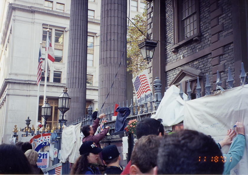 Looking southwest at sympathy display in front of St Paul's Chapel in New York two months after 9/11